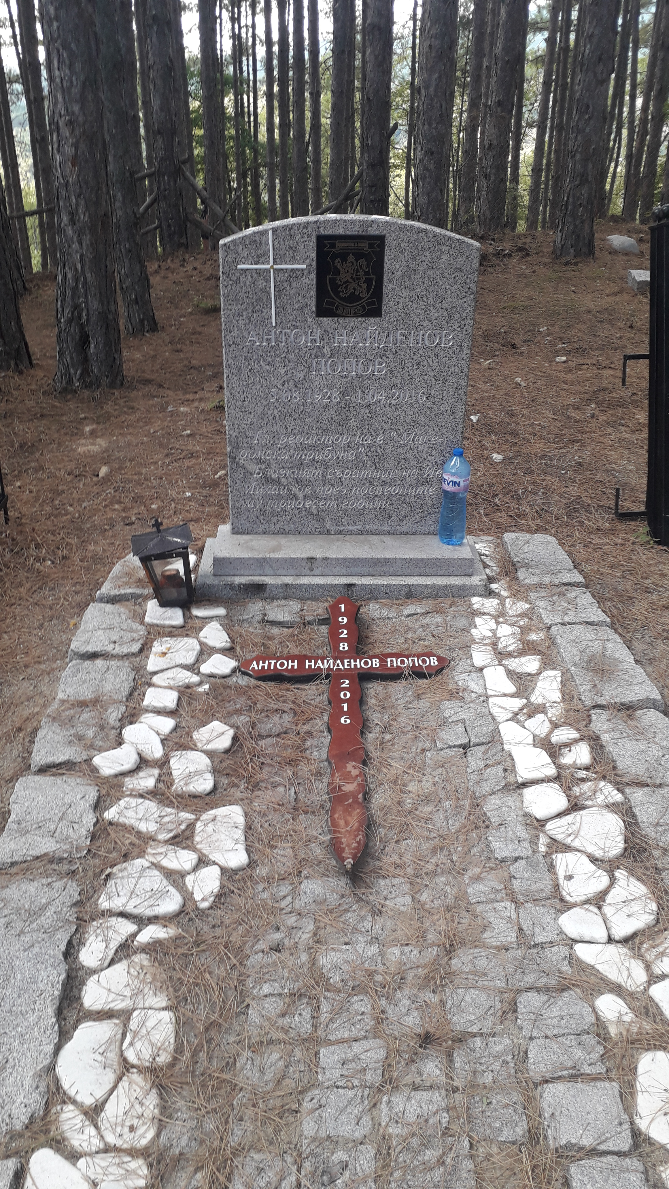 Anton Popov grave